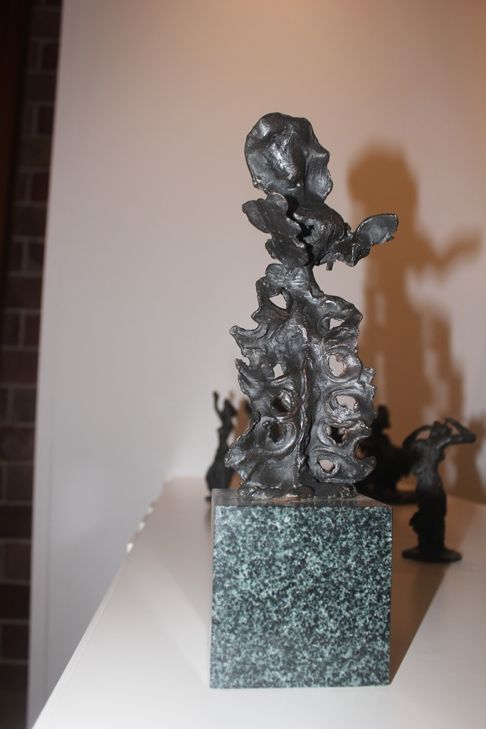 Apel•les Fenosa: Millepertius